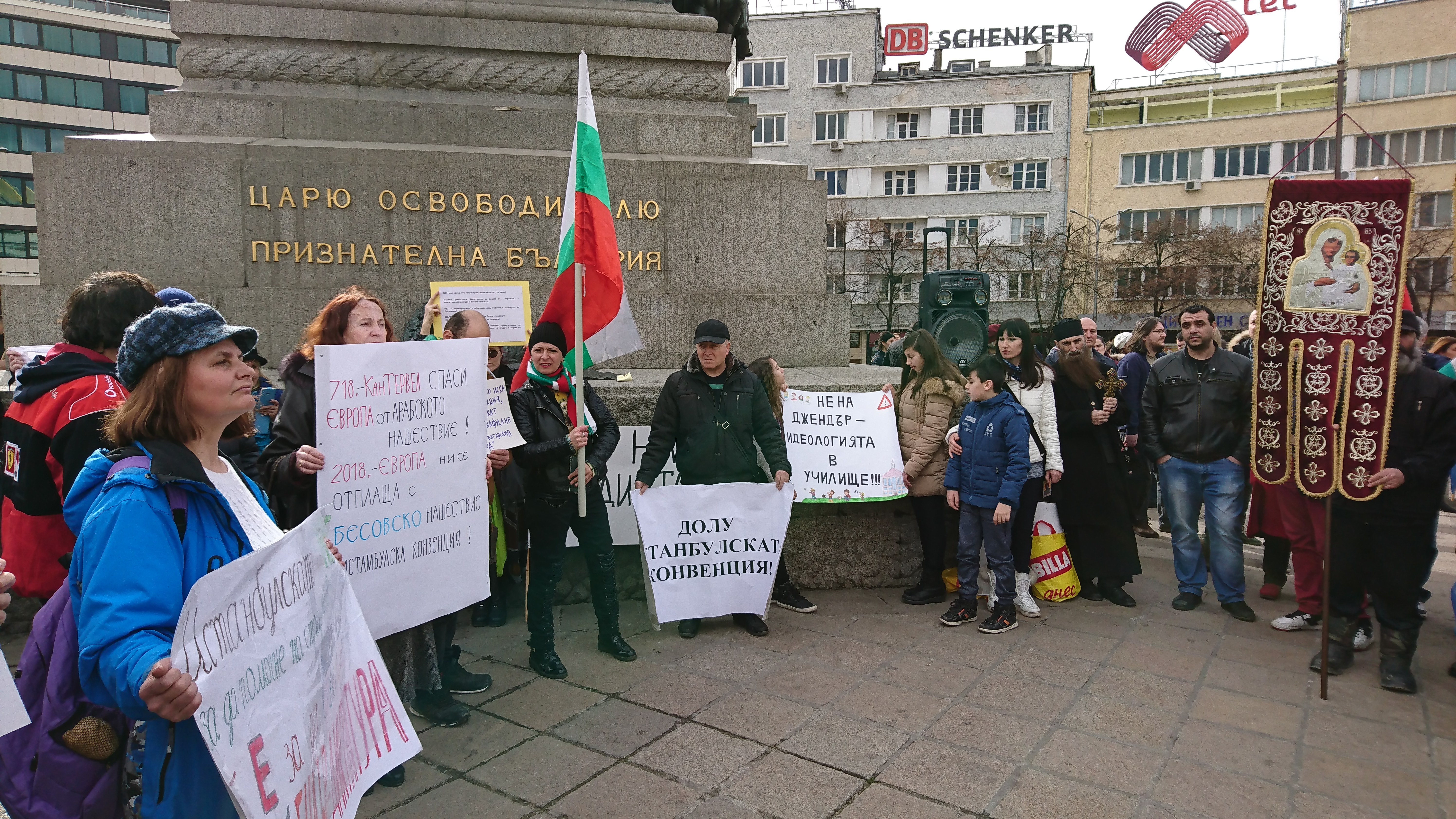 Protest against the Convention on preventing and combating violence against women and domestic violence in Sofia.